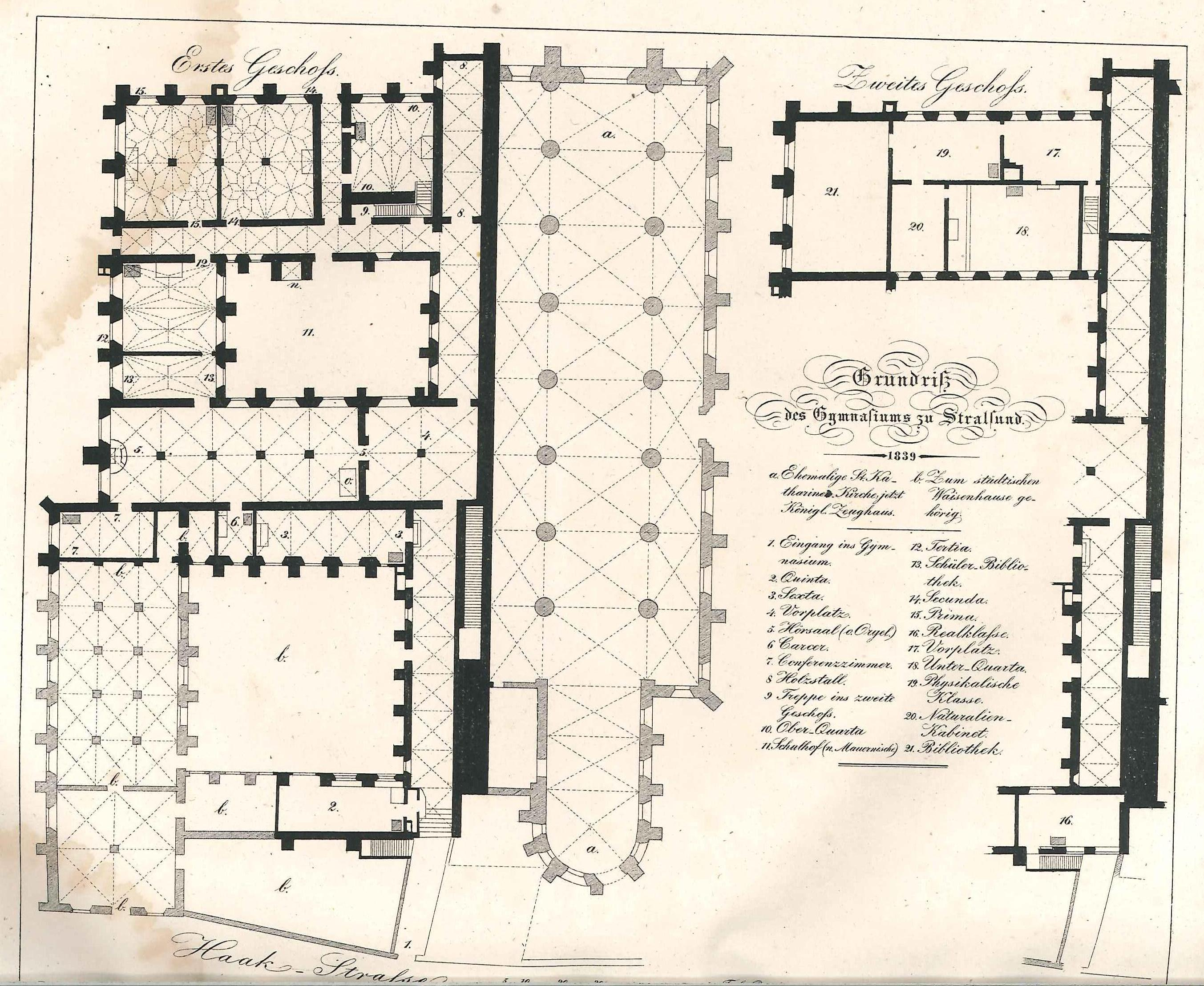 Ground plan of the Gymnasium Stralsund, from Ernst Heinrich Zober: Zur Geschichte des Stralsunder Gymnasiums. Erster Beitrag: Die Zeit der drei ersten Rektoren (1560-1569). Stralsund 1839, scanned from a collection of essays in honor of deFriedrich Koch (Schulrat) collected by Ernst Heinrich Zober, sold in 2012 by Stadtarchiv Stralsund